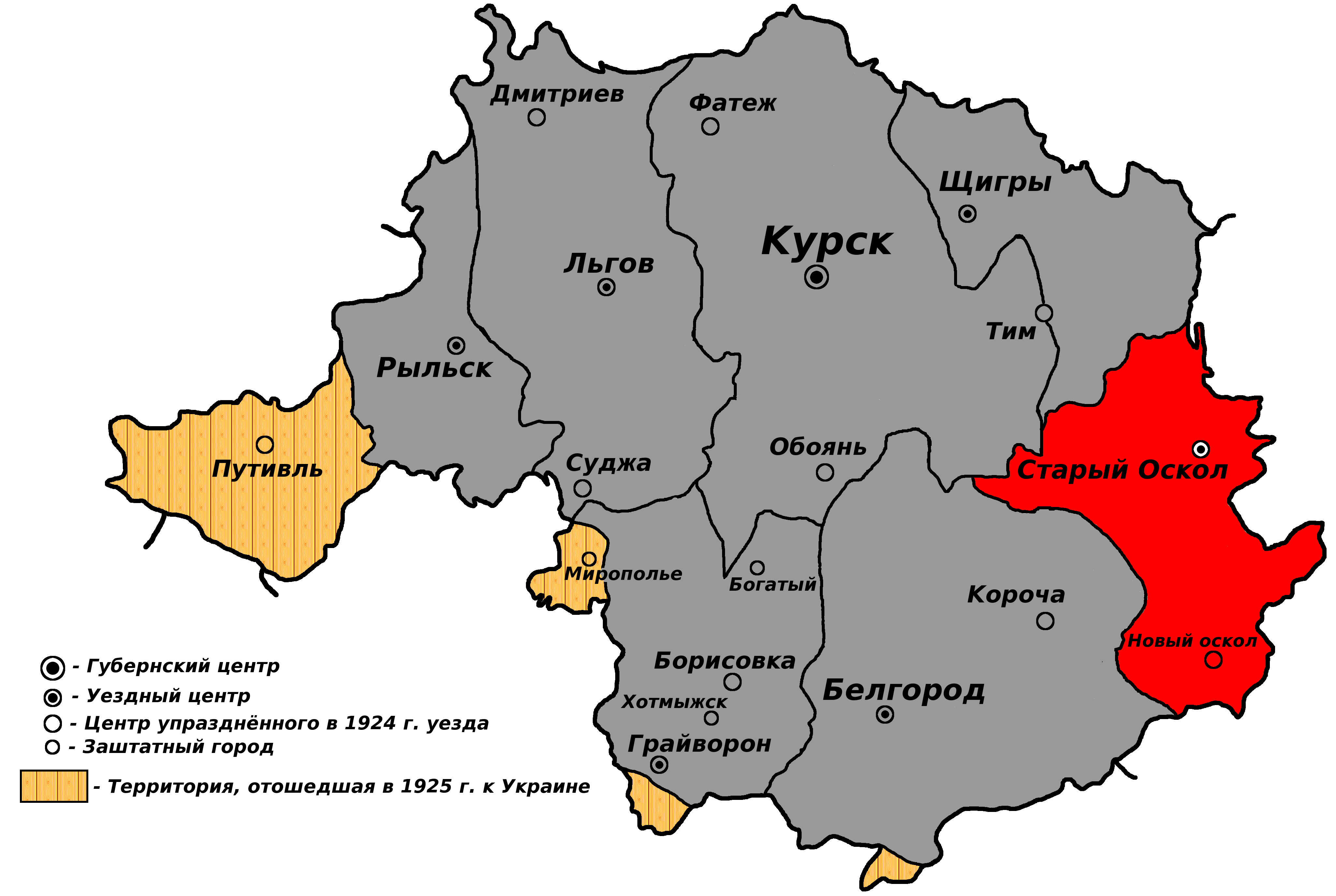 Kursk gubernia (RSFSR, 1924-1928), Starooskolsky_uyezd